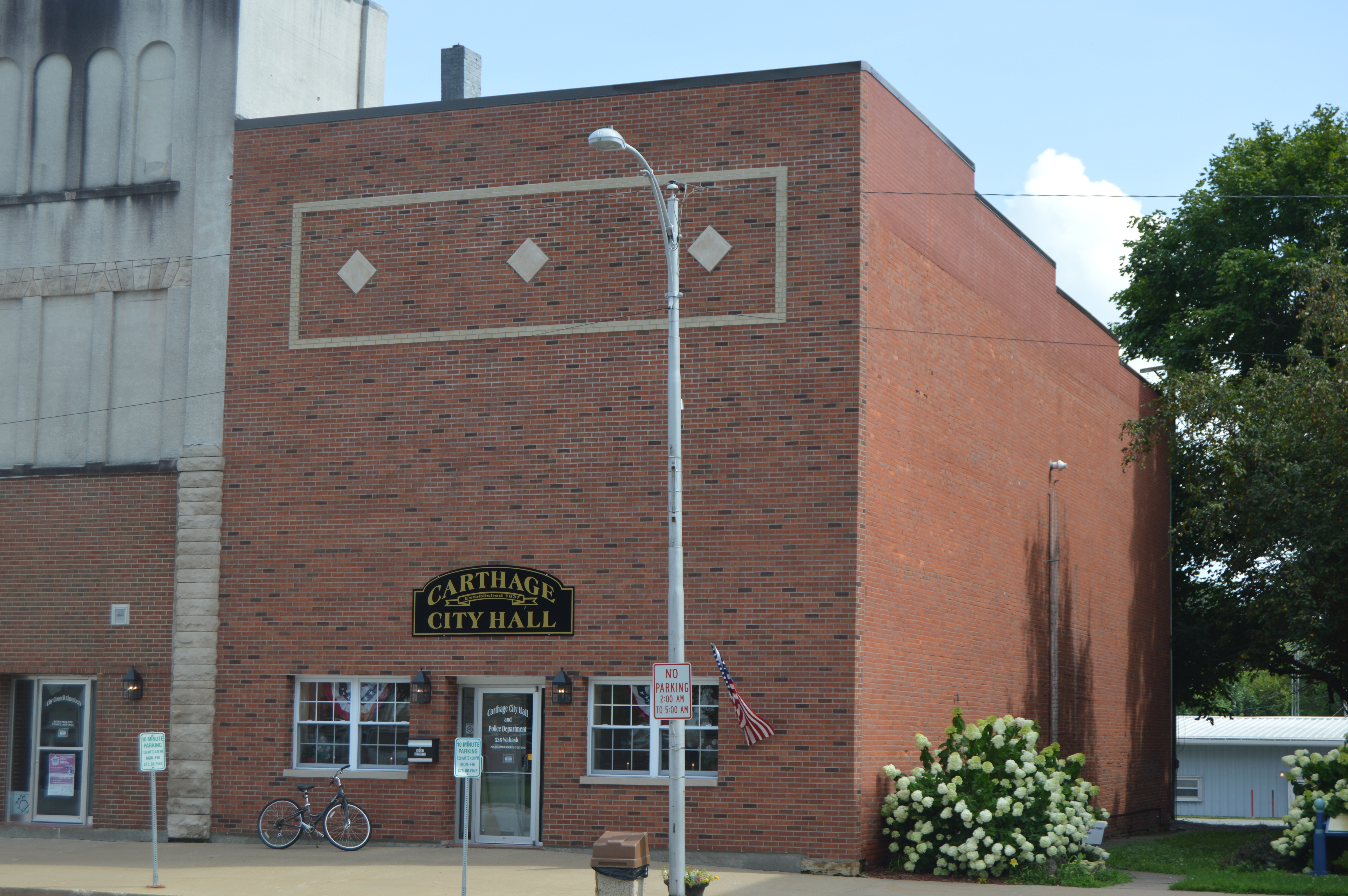 Front of City Hall in Carthage, Illinois, United States, located at 538 Wabash Avenue on the courthouse square. It was built at some point after 1986, replacing the city's 1894 Odd Fellows hall.